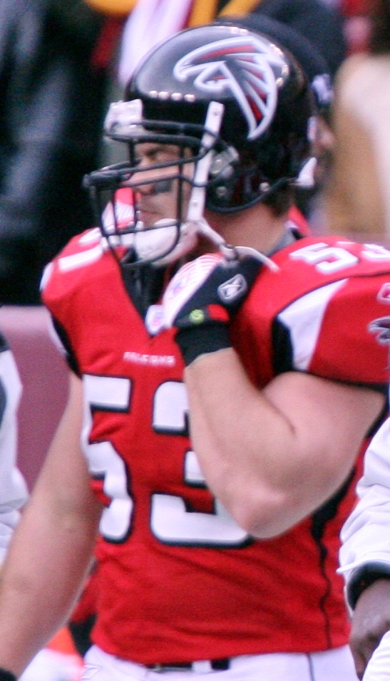 2006 Falcons-Redskins game.